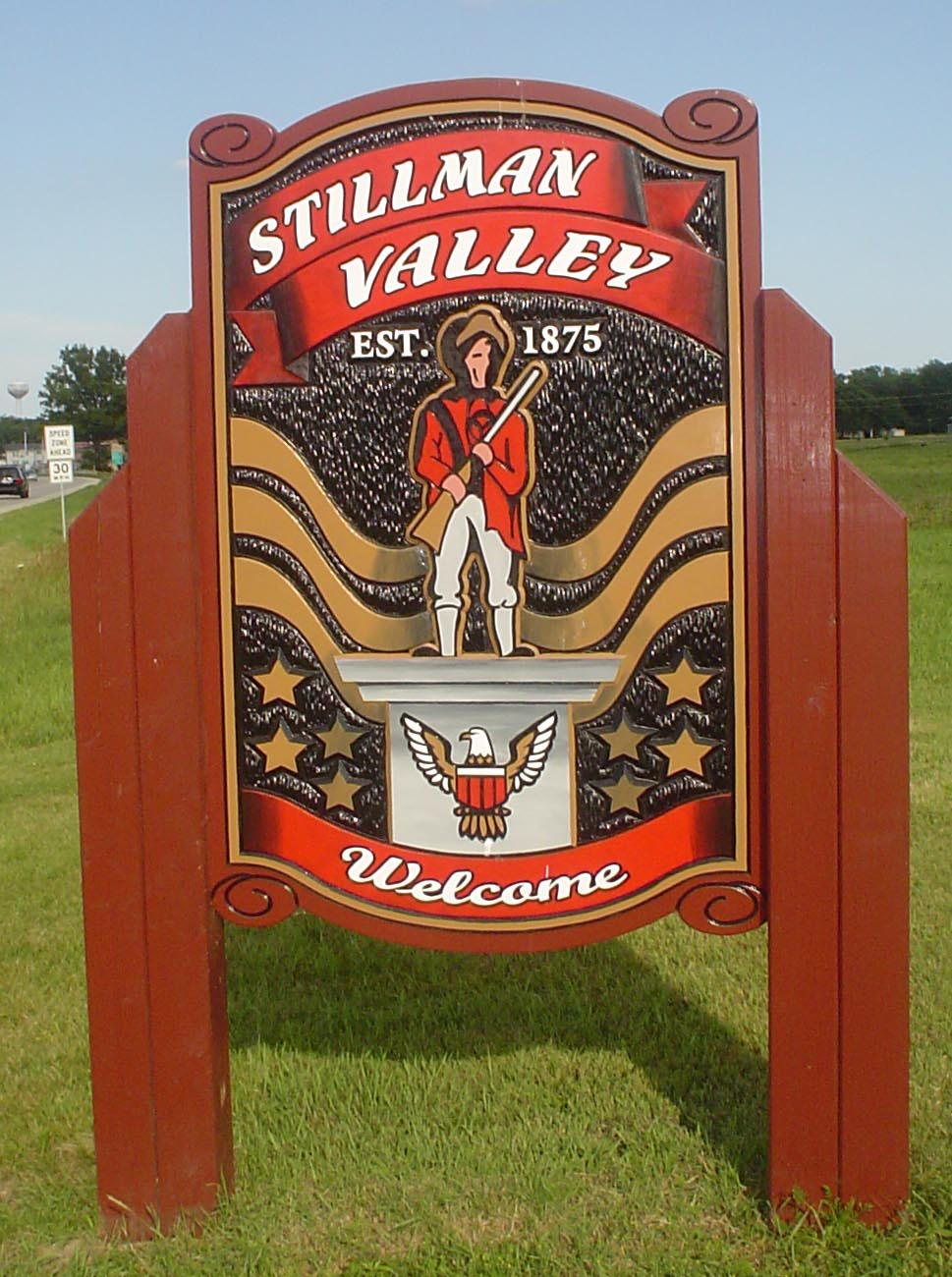 Sign leading into the west side of Stillman Valley, Illinois, USA.